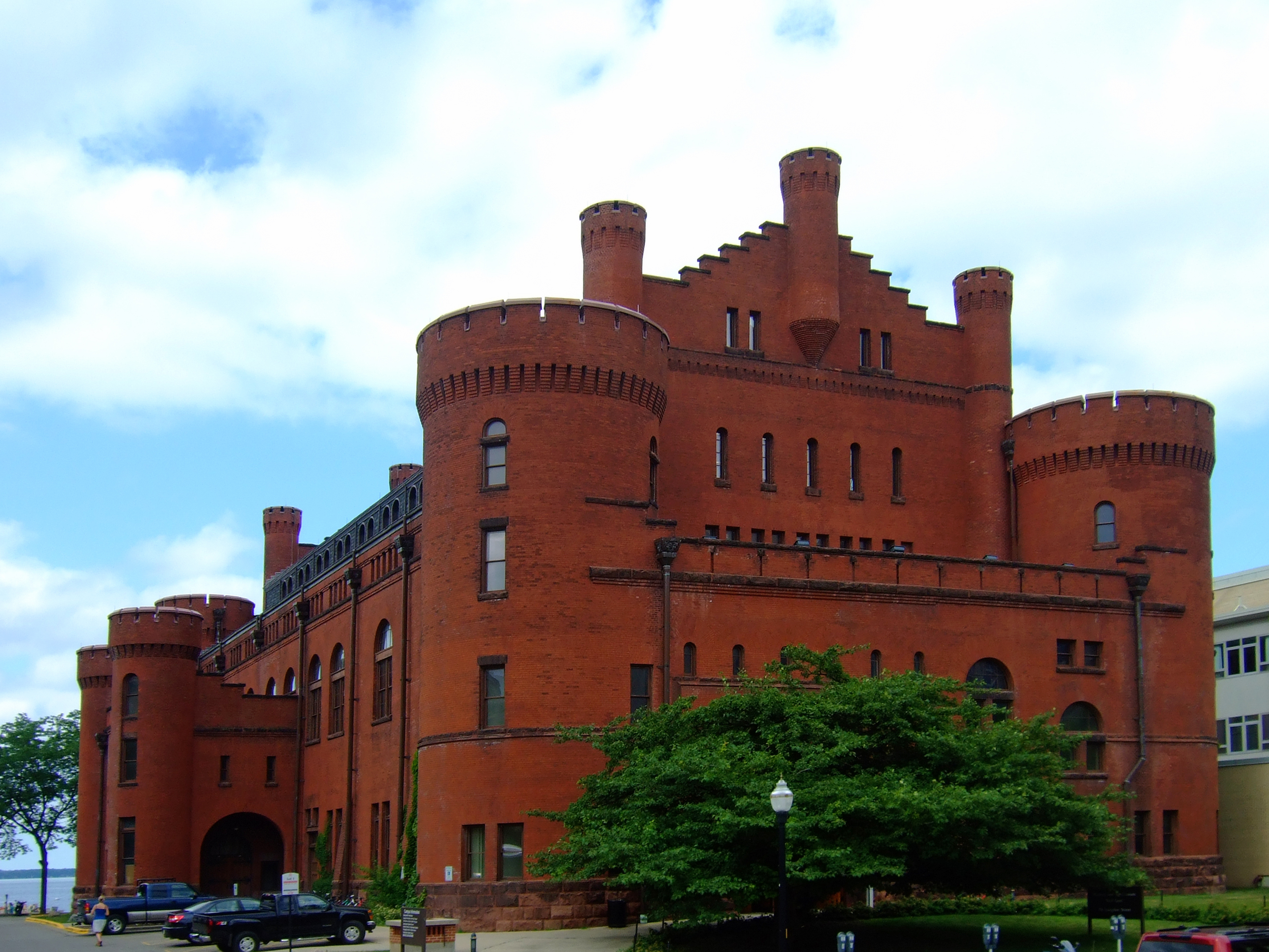 The Red Gym on the campus of the University of Wisconsin-Madison.